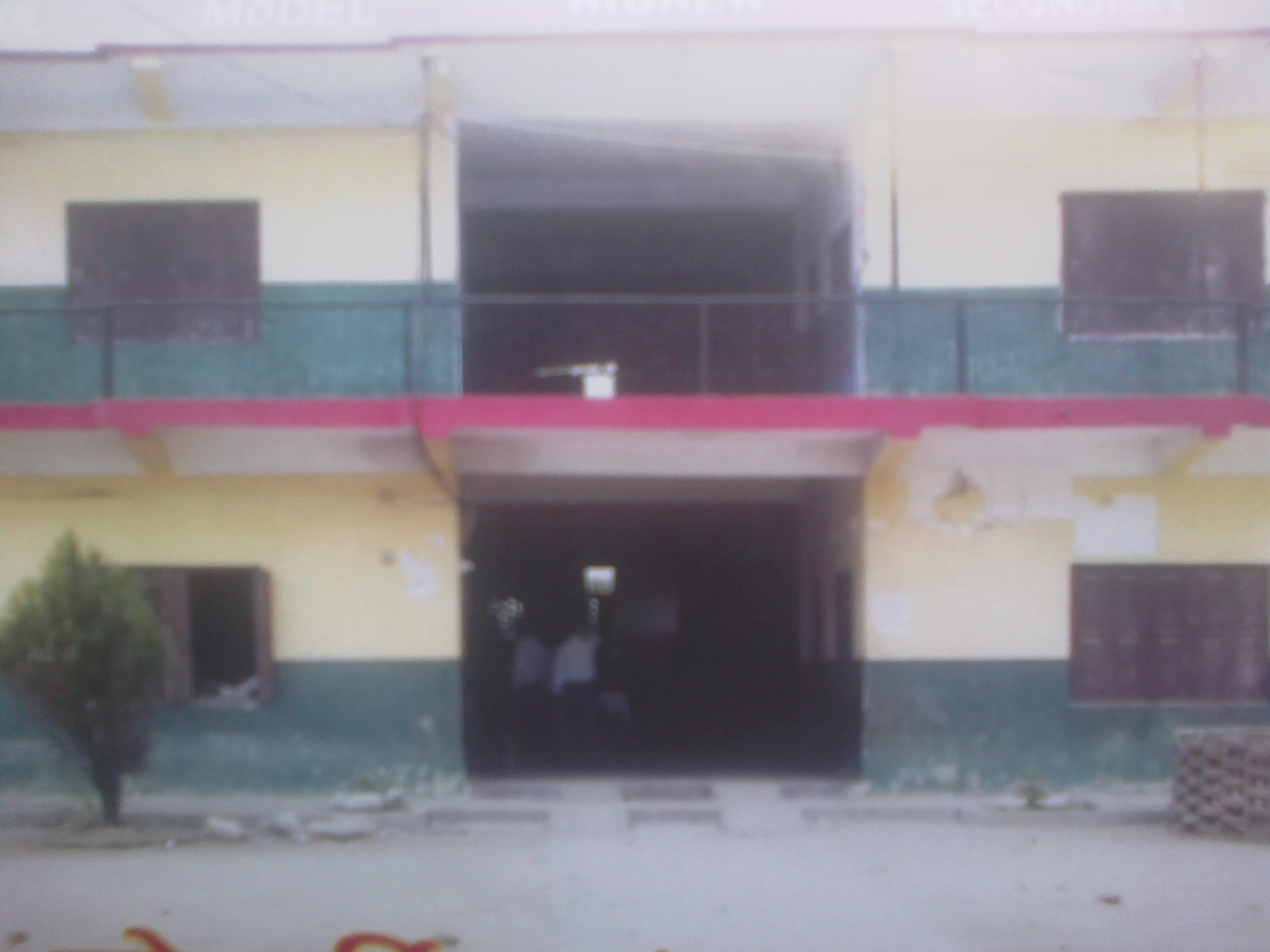 This photo shows the main building of shree harikul.